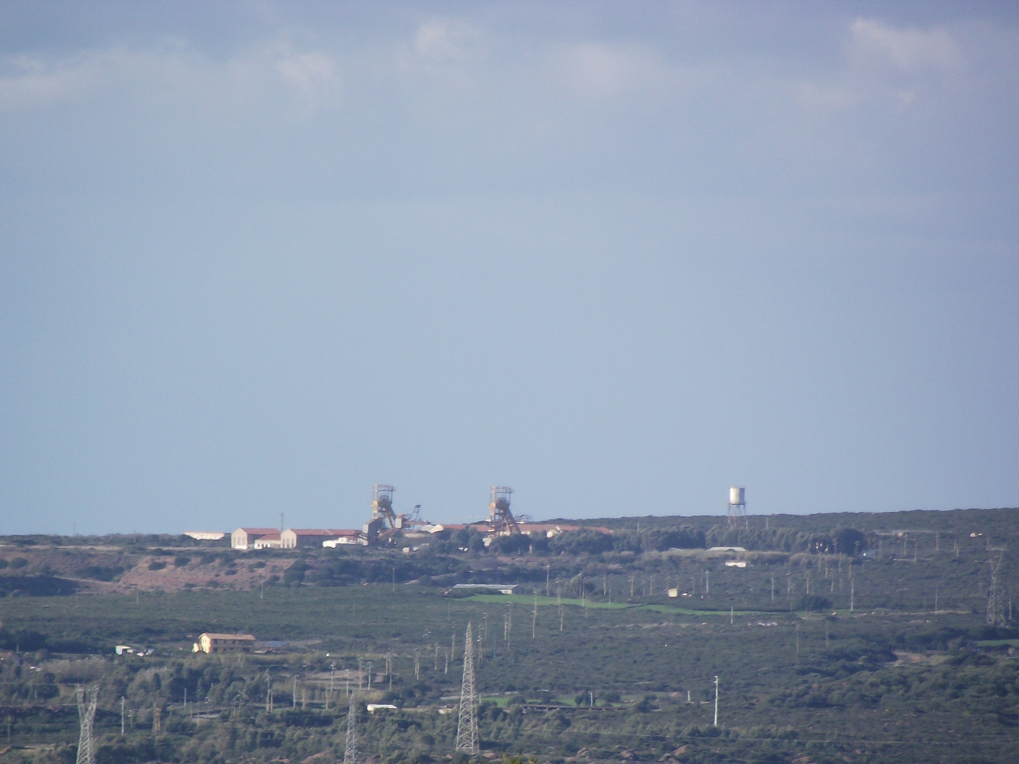 The former coal mine of Seruci, in Gonnesa, Sardinia, Italy, seen from Monte Sirai